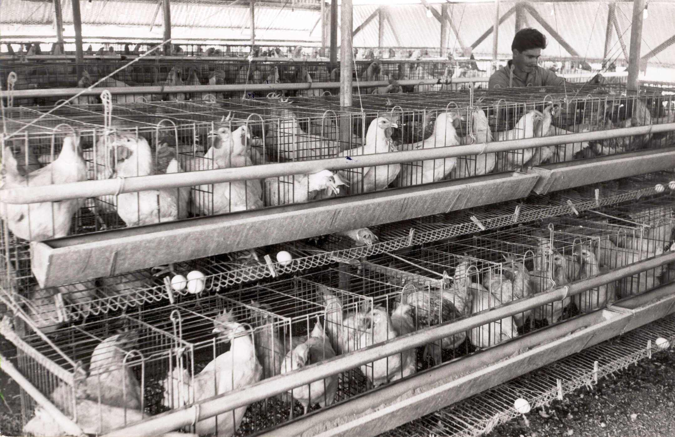 Uri Shaham (Steinberg) in his chicken coop.